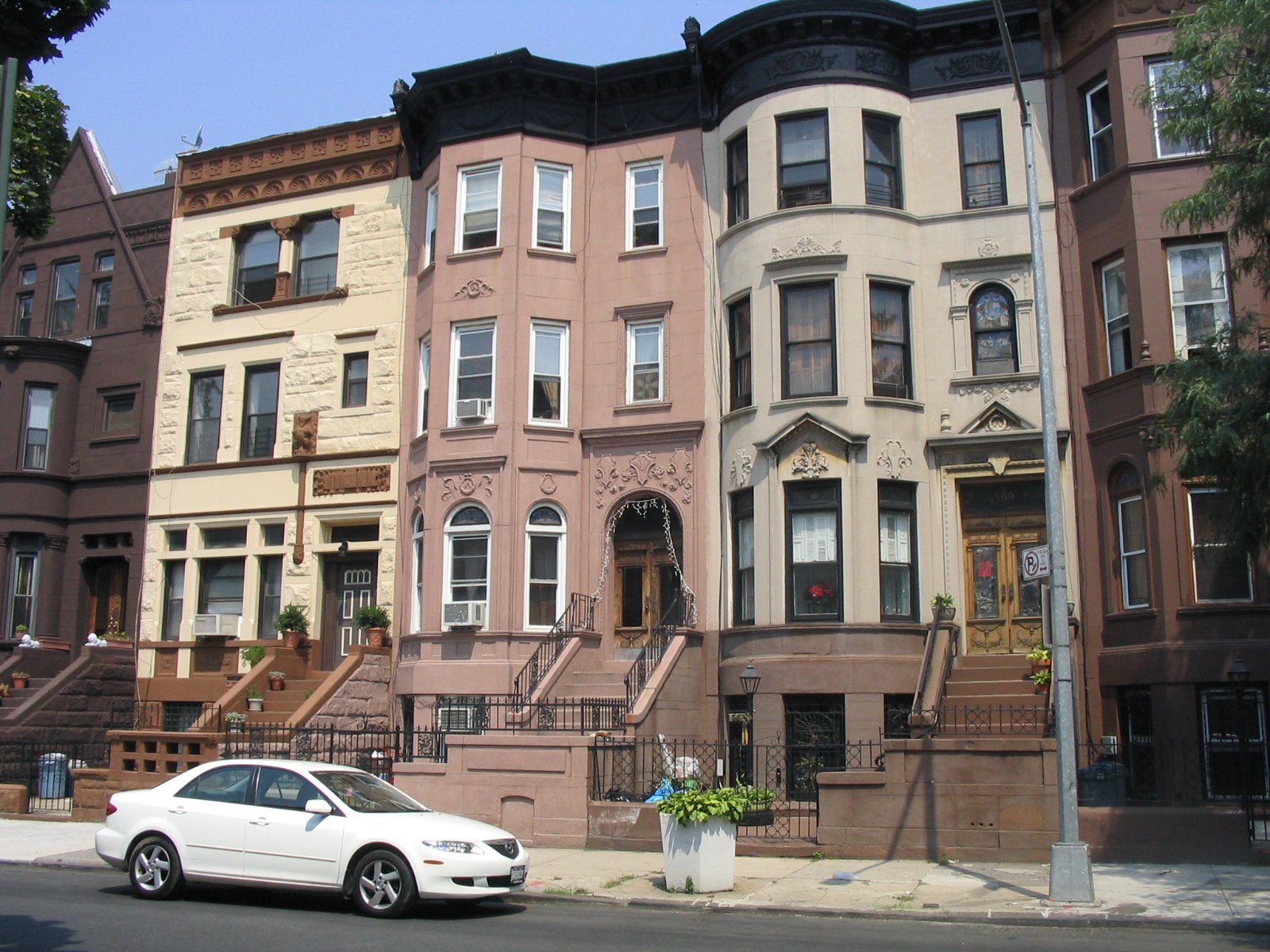 Brownstones in Bedford-Stuyvesant, Brooklyn. Photo taken by webmaster of and released to the public domain.